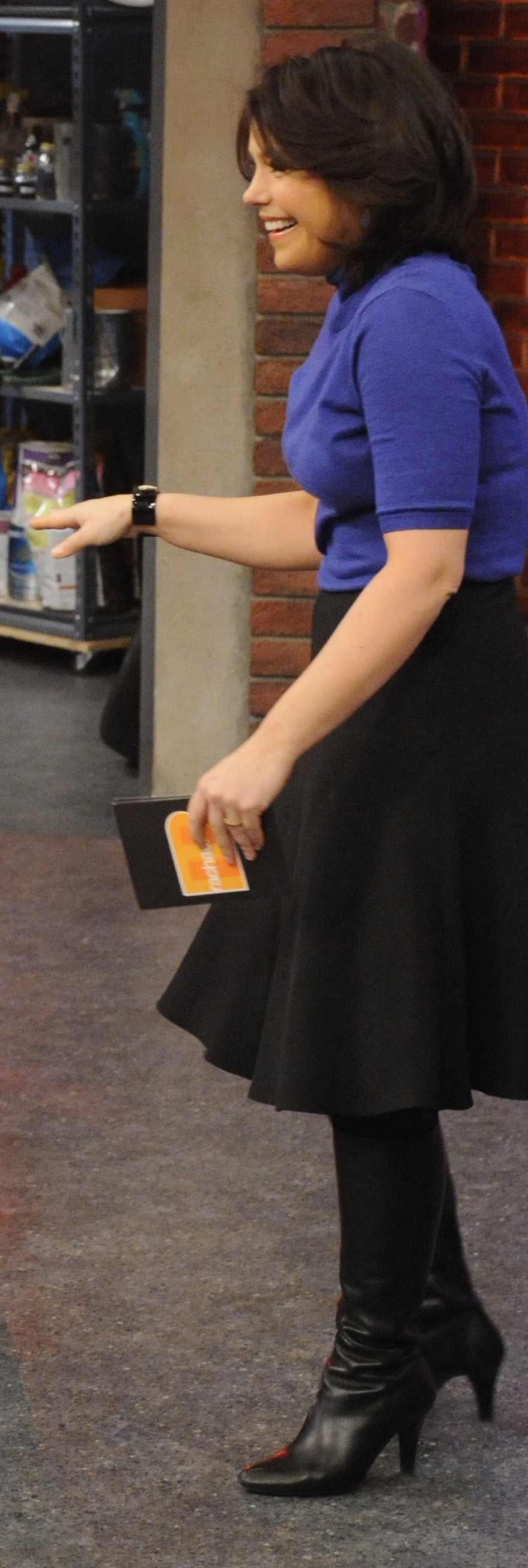 Rachel Ray in knee-length fashion boots, 30 January 2009(2009-01-30), cropped from Flyscooters Rachel Ray Zellweger & Connick Jr. 1-30-09.jpg, author Allegrosalsa